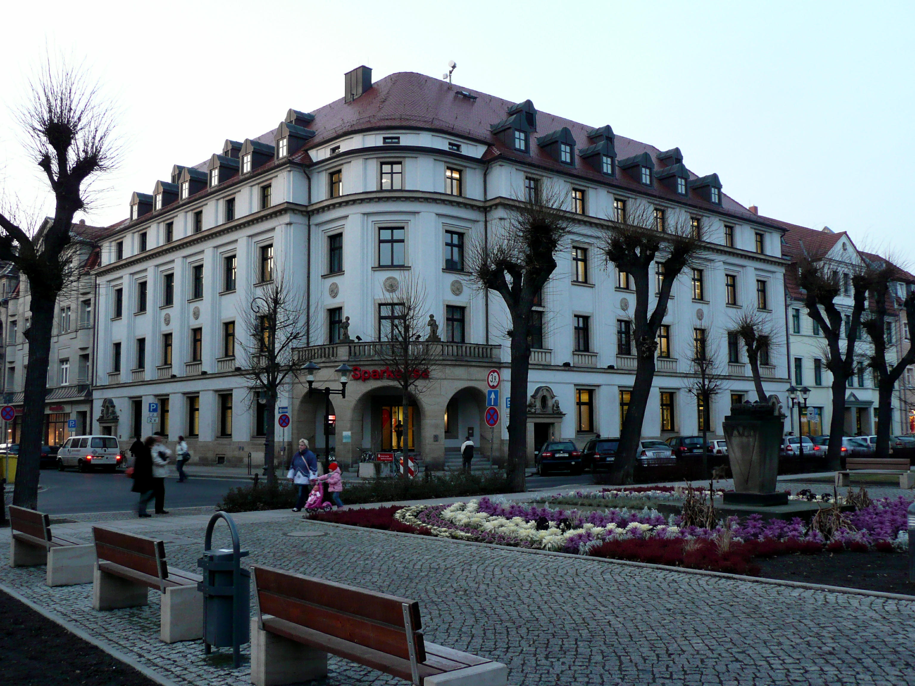 This image shows the trustee savings bank in Pirna in Saxony, Germany.